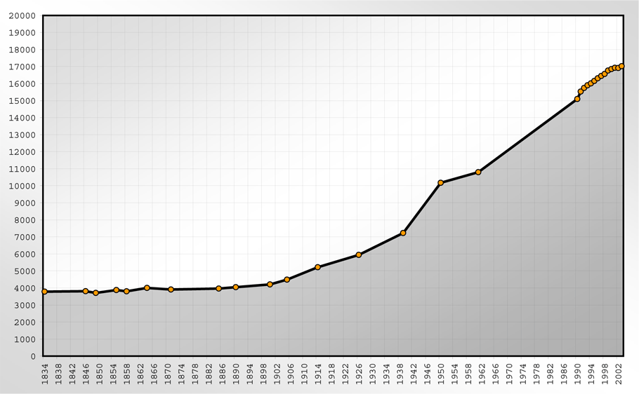 This image shows the population statistics of Gescher (Germany).